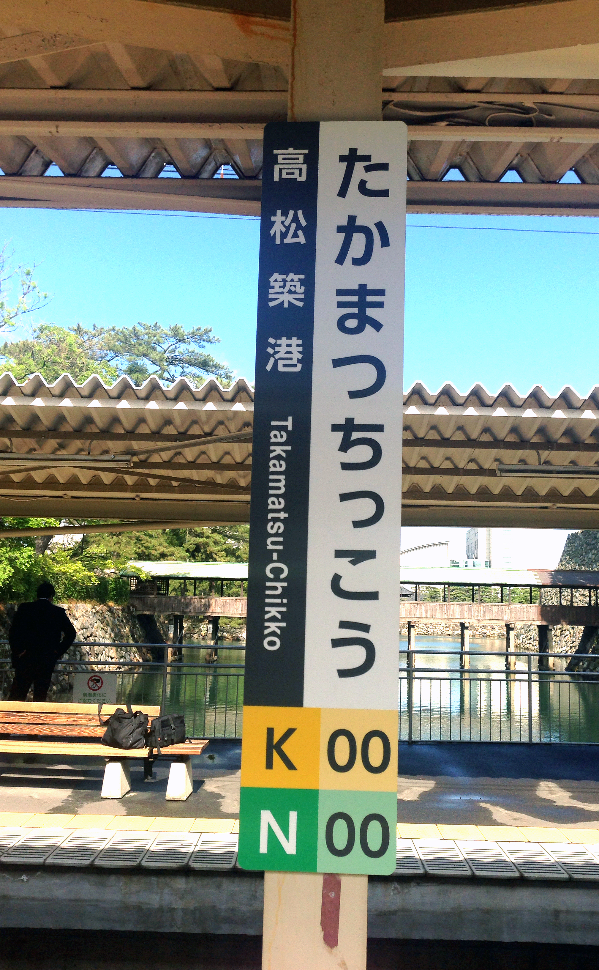 Takamatsu-Chikko Station Station Name Plate (vertical type)